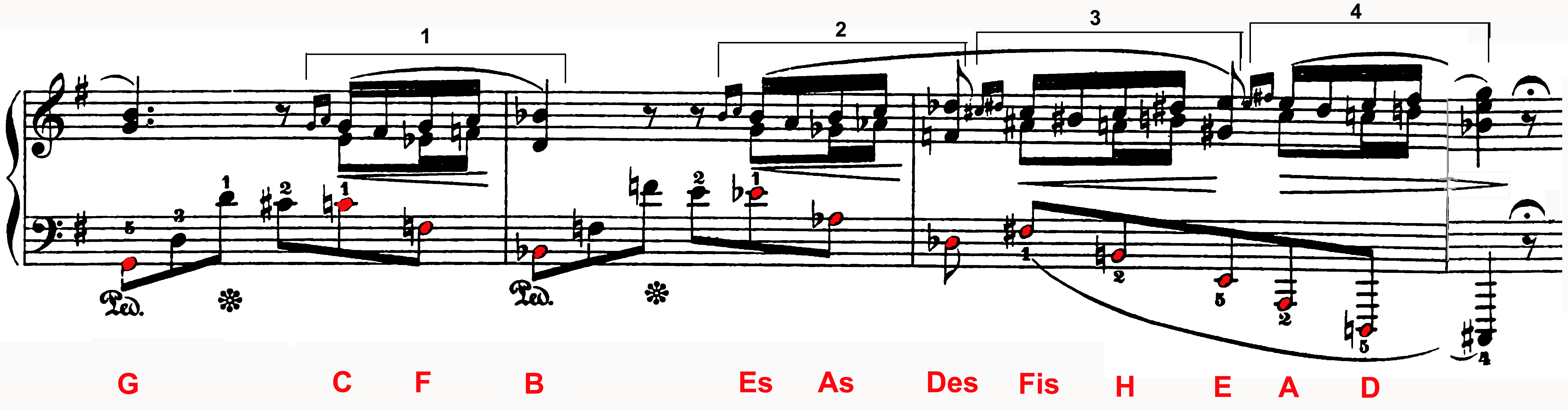 Modulation by the circle of fifths at the end of the Nocturne op. 37.2 by Chopin